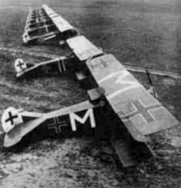 Ten German Fokker D.VII fighters of Jasta 72 at Bergnicourt, France, in July 1918. The plane marked with an "M" belonged to Oberleutnant Karl Menckhoff.